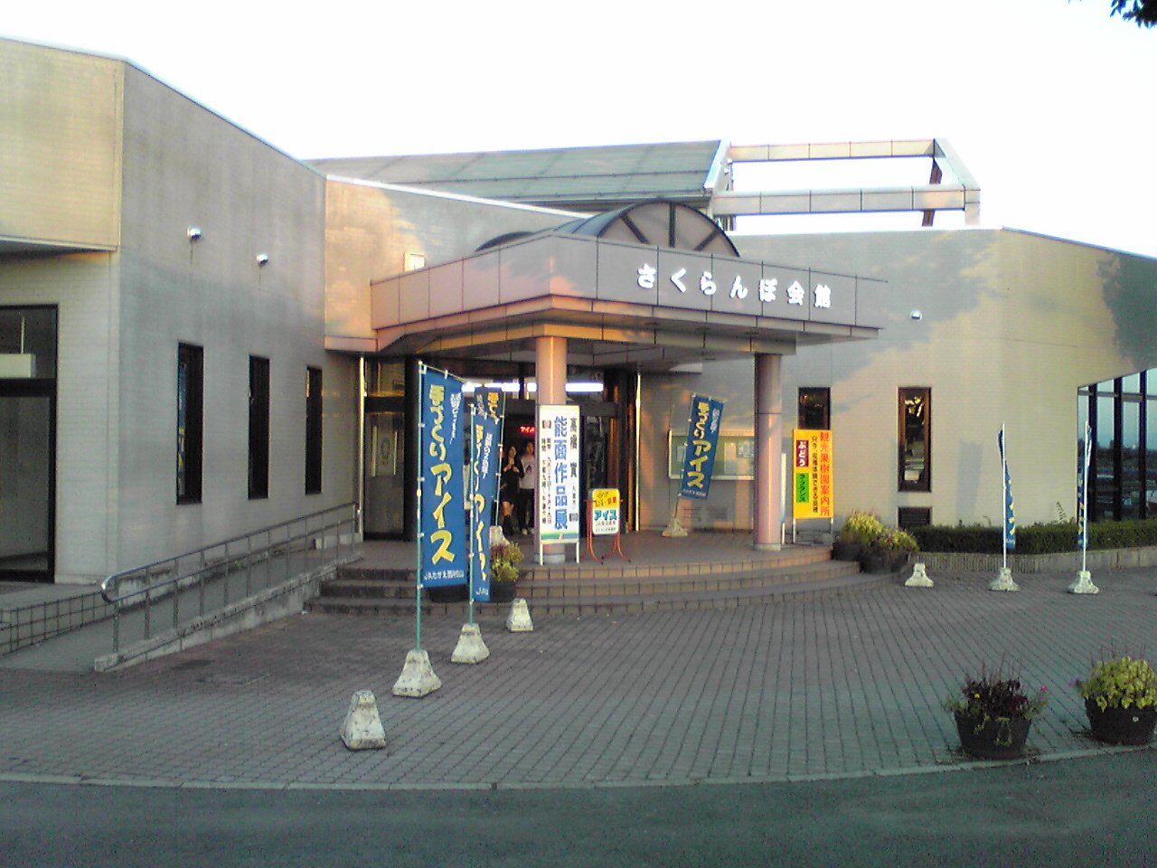 Sakuranbo Kaikan (lit. cherry fruit Hall) at Michinoeki Sagae in Sagae City, Yamagata Prefecture, Japan